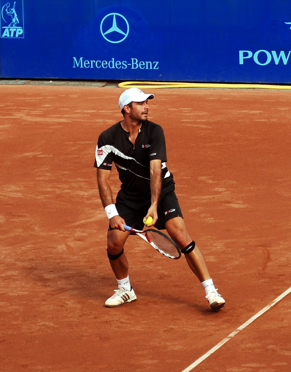 Spanish tennis player Ivan Navarro at the 2008 BCR Open Romania in Bucharest